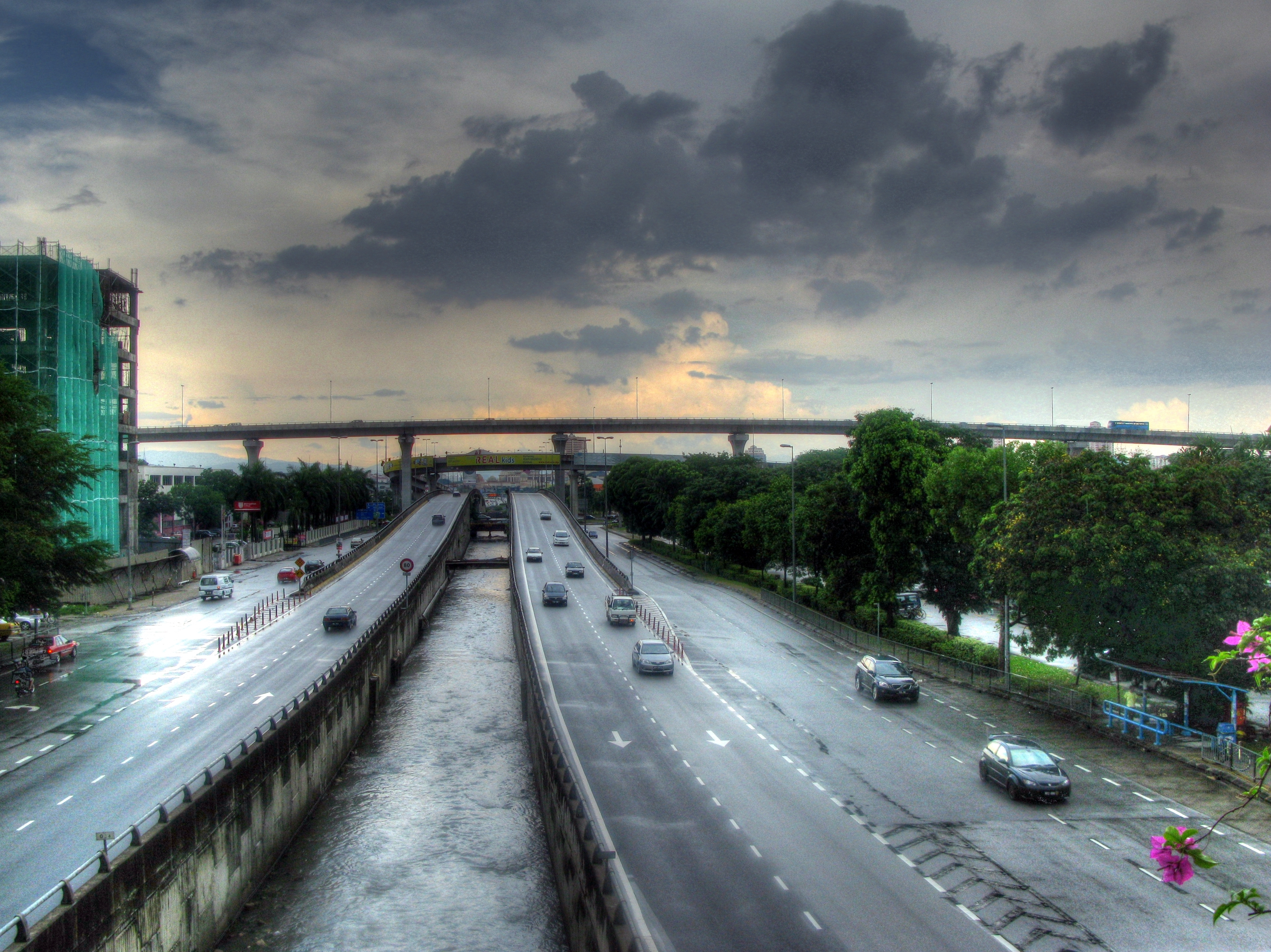 Lebuhraya Pantai Baru, Subang Jaya - Tonemapped from an HDR image generated by combining three exposures (0 EV, +2 EV, -2 EV)